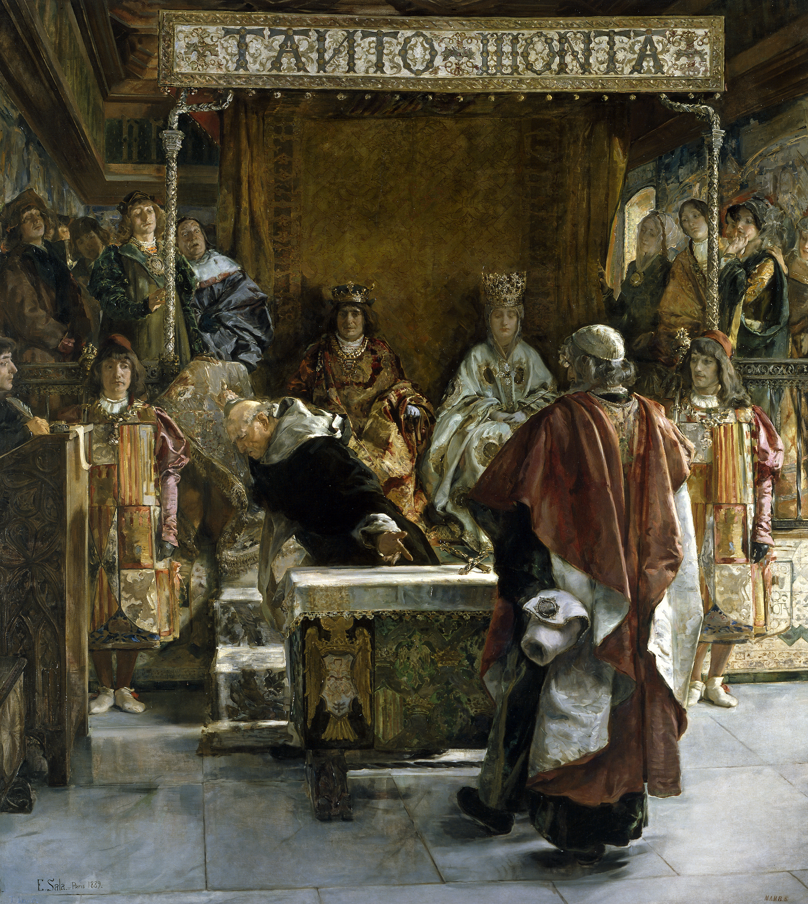 The Grand Inquisitor friar Tomás de Torquemada in 1492 offers to the Catholic Monarchs the Edict of expulsion of the Jews from Spain for their signature. Oil by Emilio Sala y Francés (1889)